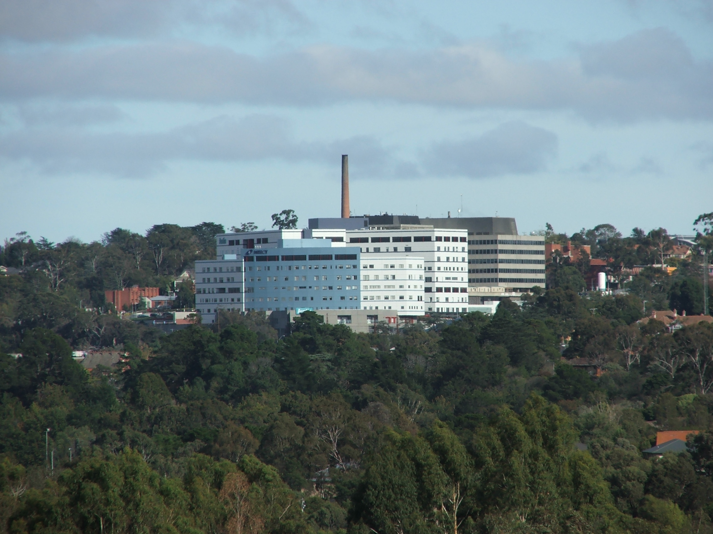 Austin & Mercy Hospitals as seen from Banyule flats reserve